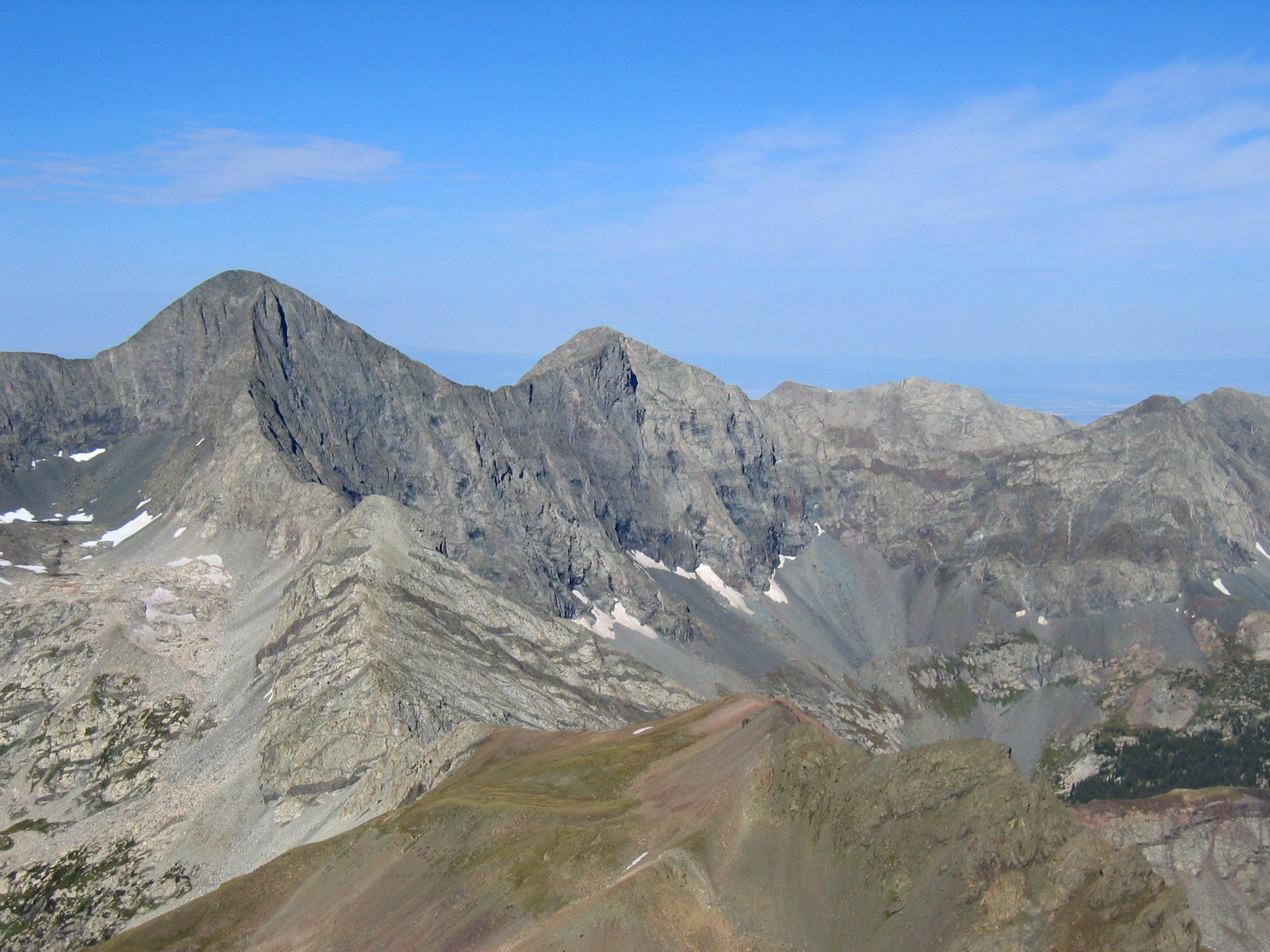 Blanca Peak, Colorado, USA. Photo taken by submitter. All rights released.